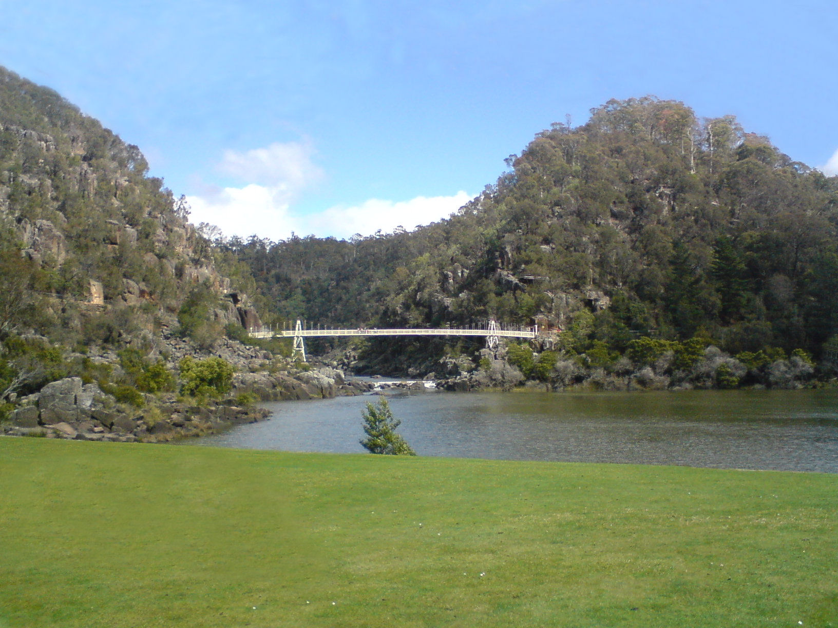 View of swinging bridge at Cataract Gorge